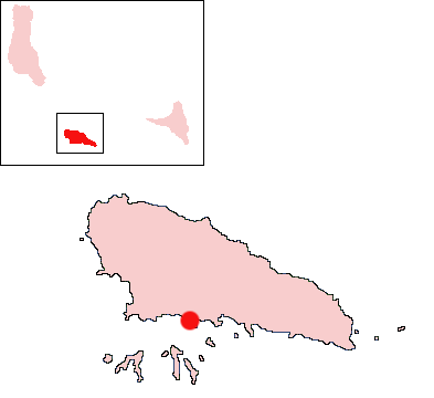 Nioumachoua, Mohéli, Comoros Location Map; created with the GIMP. Made by User:Acntx.